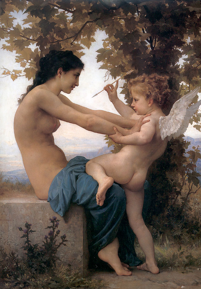 William Adolphe Bouguereau's art